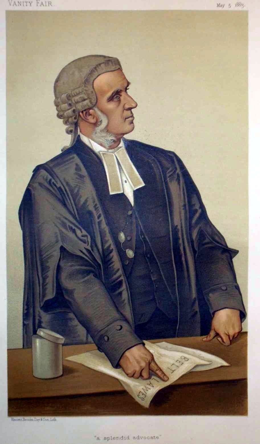 Caricature of Mr Charles Russell QC MP. Caption read "a splendid advocate".